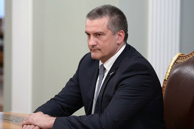 Sergei Aksyonov appointed Acting Head of Crimea.